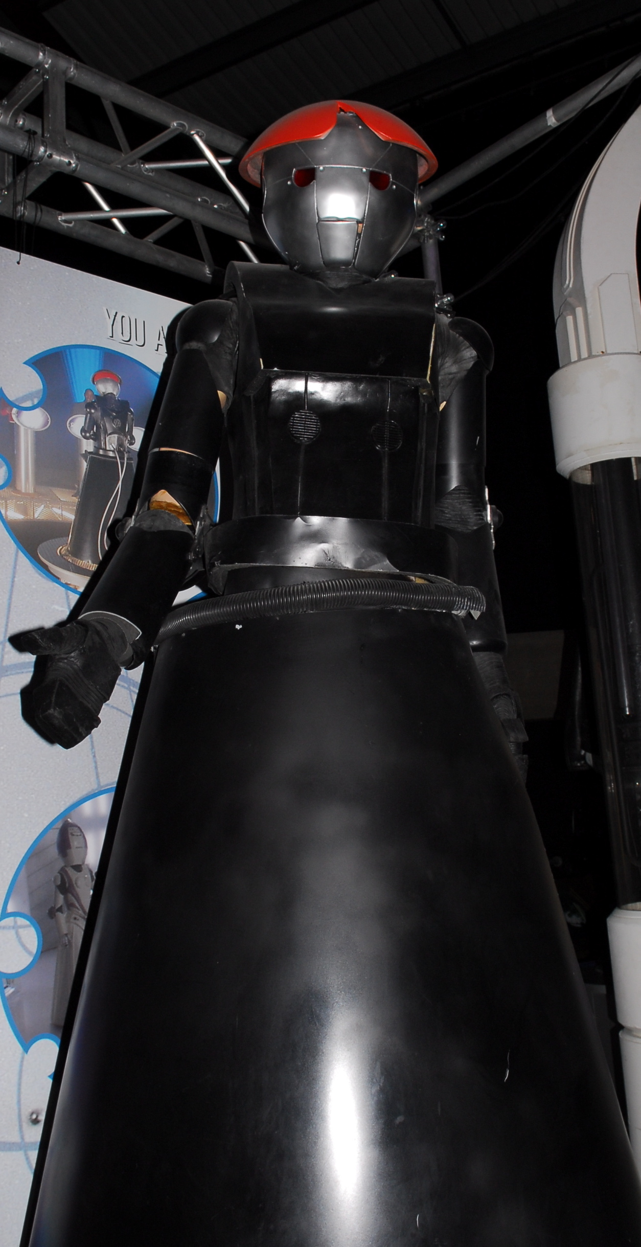 DSC_0359 Doctor Who Experience